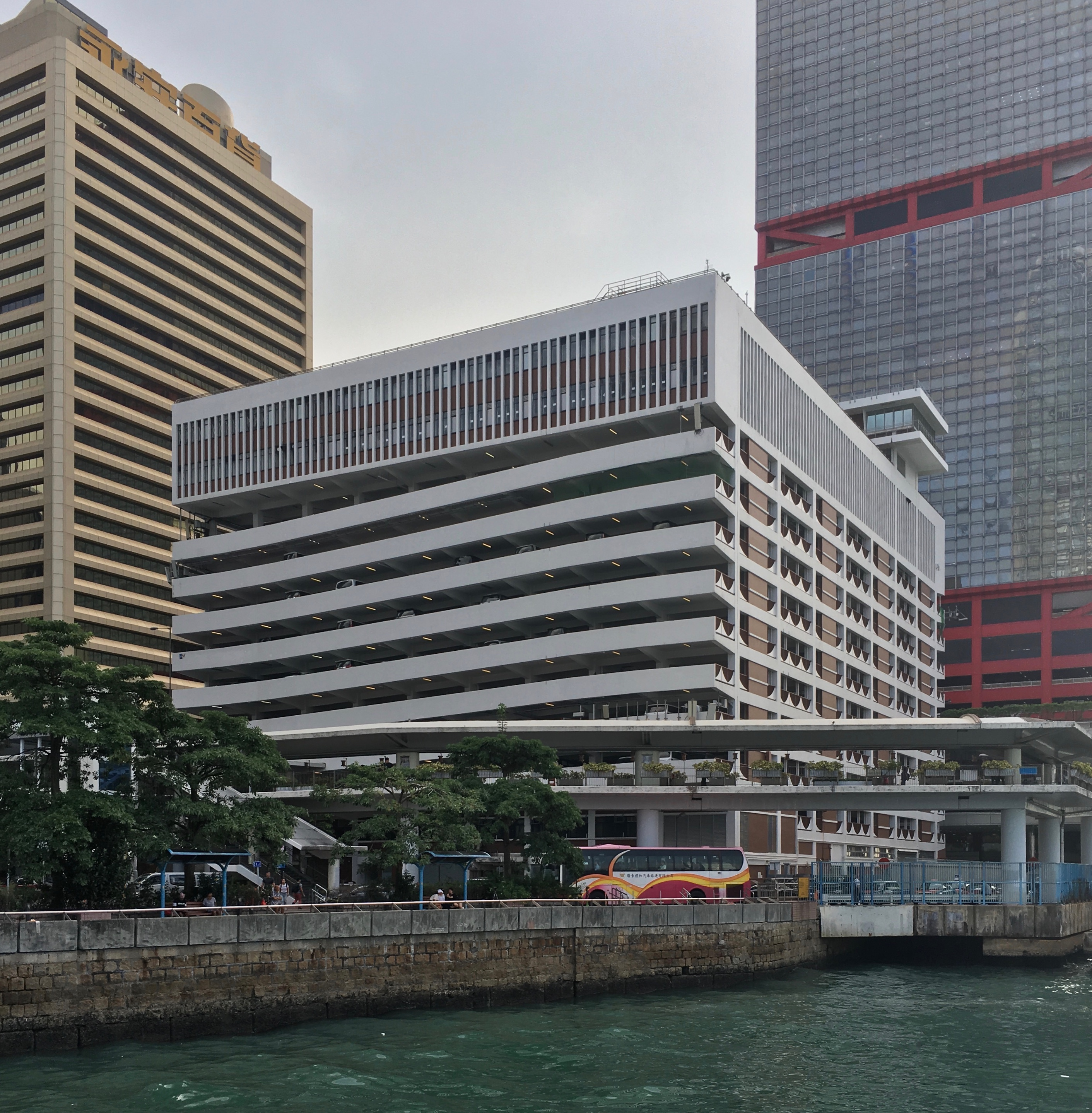 View of Rumsey Street Multi-storey Car Park from the Central Landing No. 10 near Sheung Wan